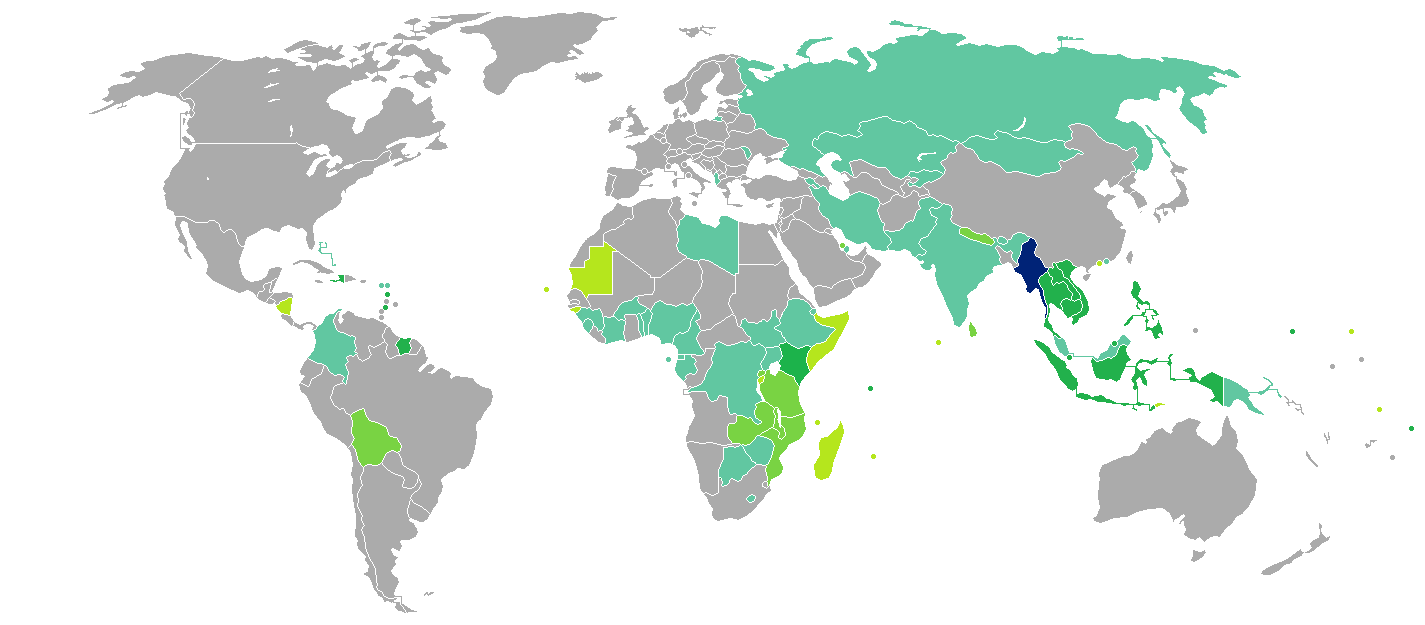 Visa requirements for Myanmar citizens Myanmar Visa free access Visa on arrival eVisa Visa available both on arrival or online Visa required